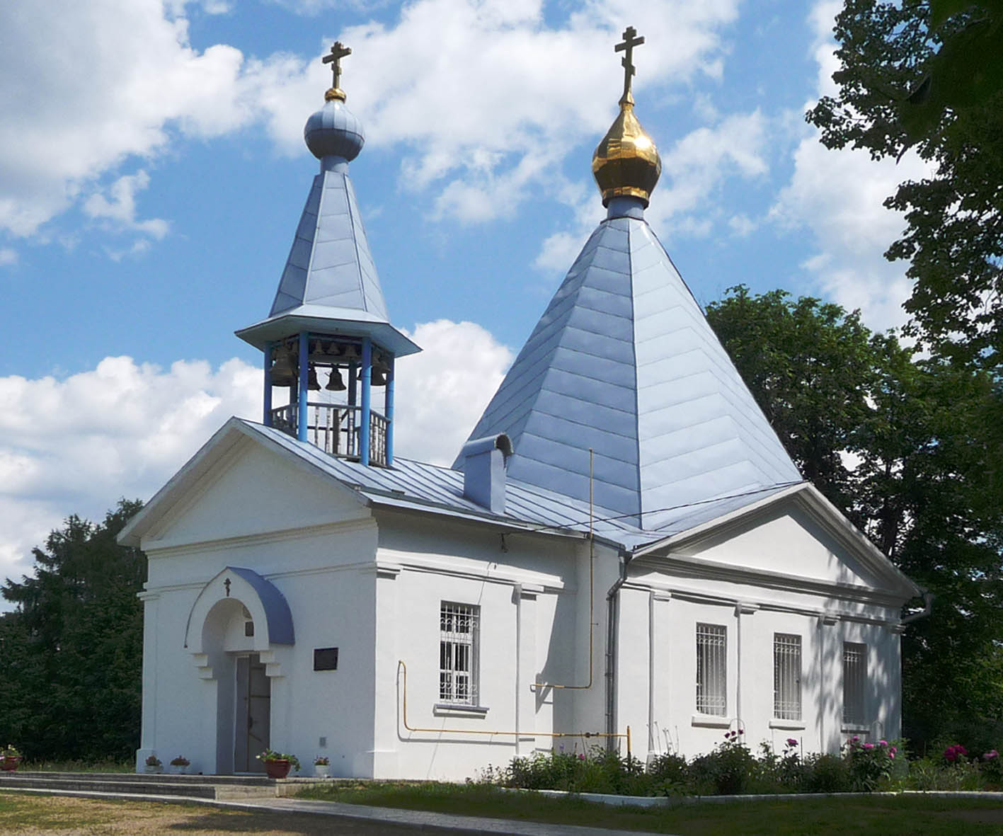 Church of Mary Magdalene in the village of Ulitkino, Shchyolkovsky District, Moscow oblast, Russia (1748).